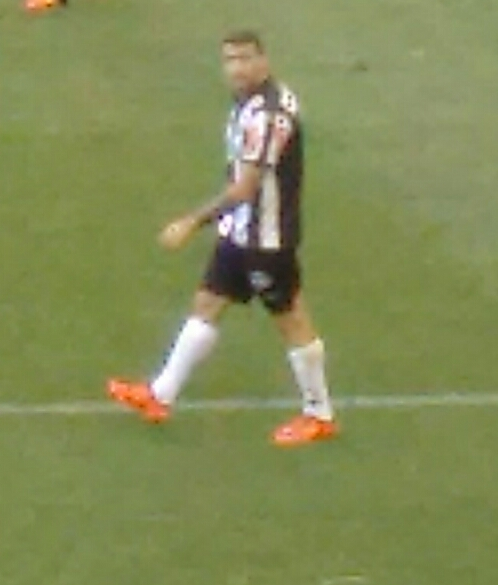 Argentine footballer Lucas Pratto playing for Atlético Mineiro in 2015.